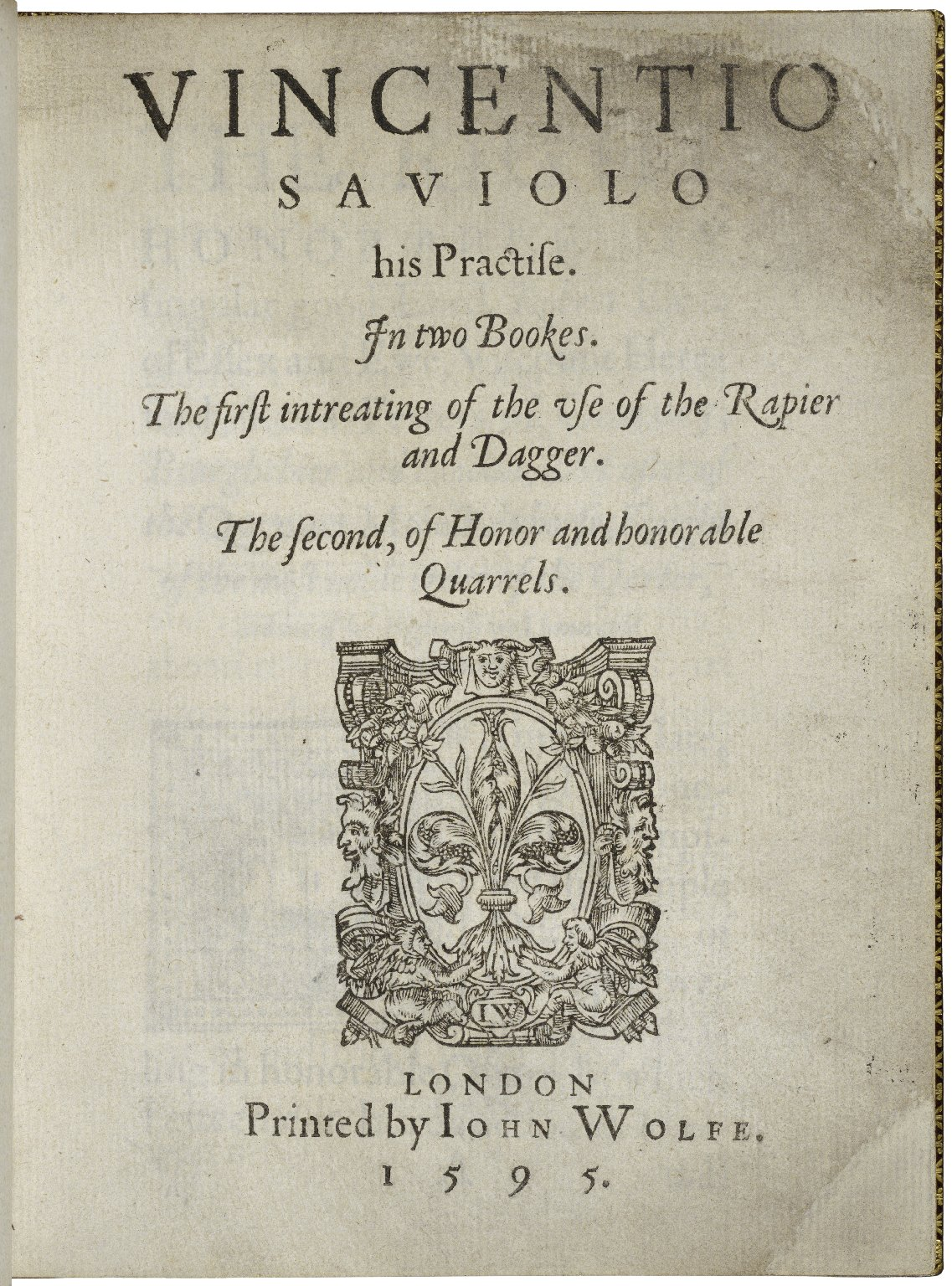 The title page from Vincentio Saviolo, His Practice, an Elizabethan fencing handbook translated into English in 1595.